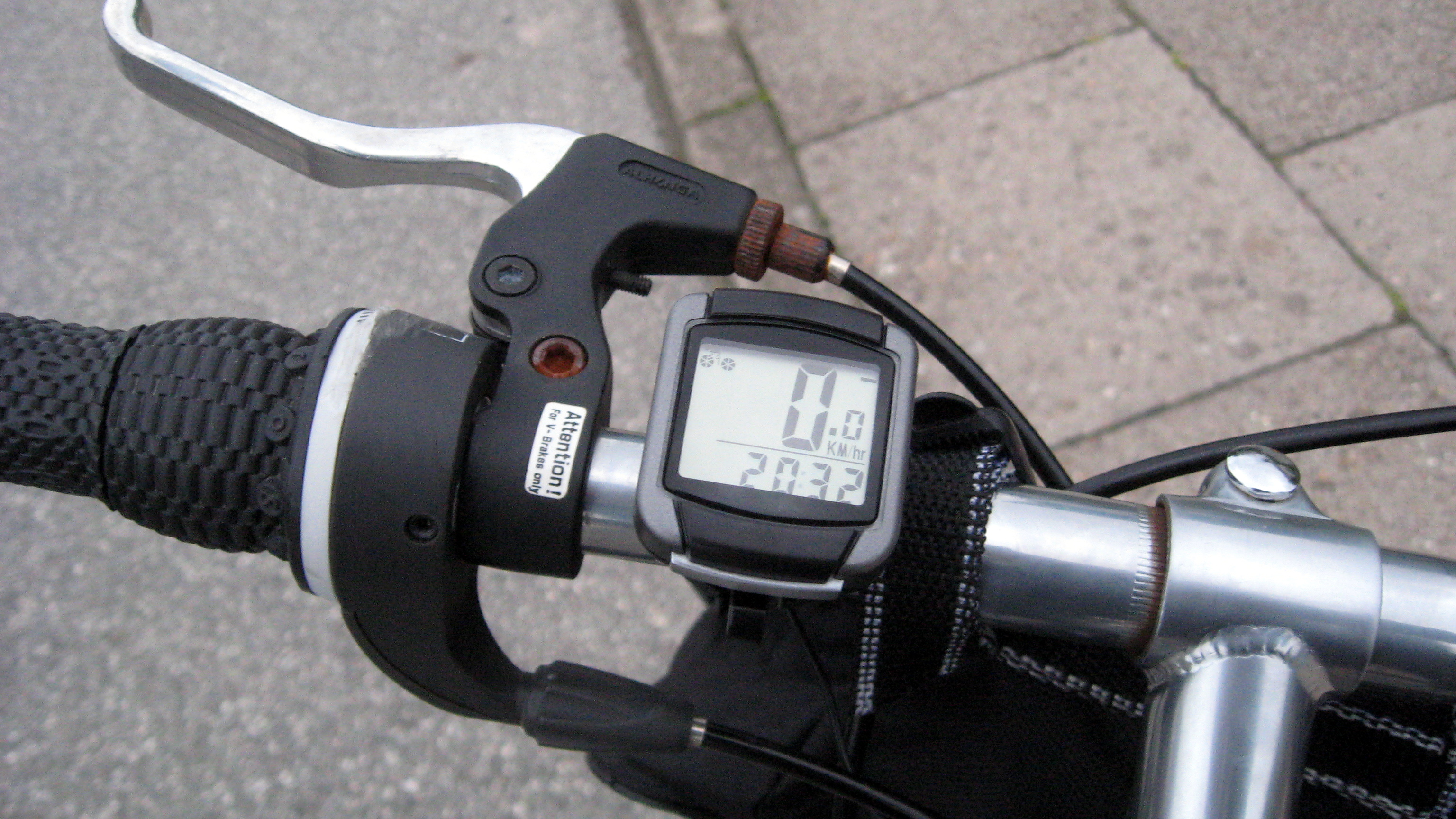 a cyclocomputer mounted on a bicycle